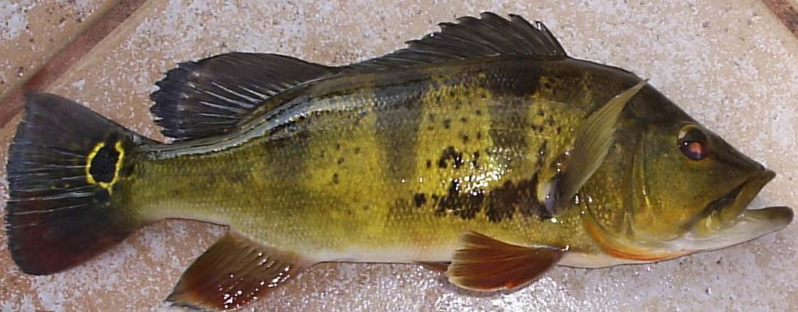 Cichla monoculus Category:Cichlid images